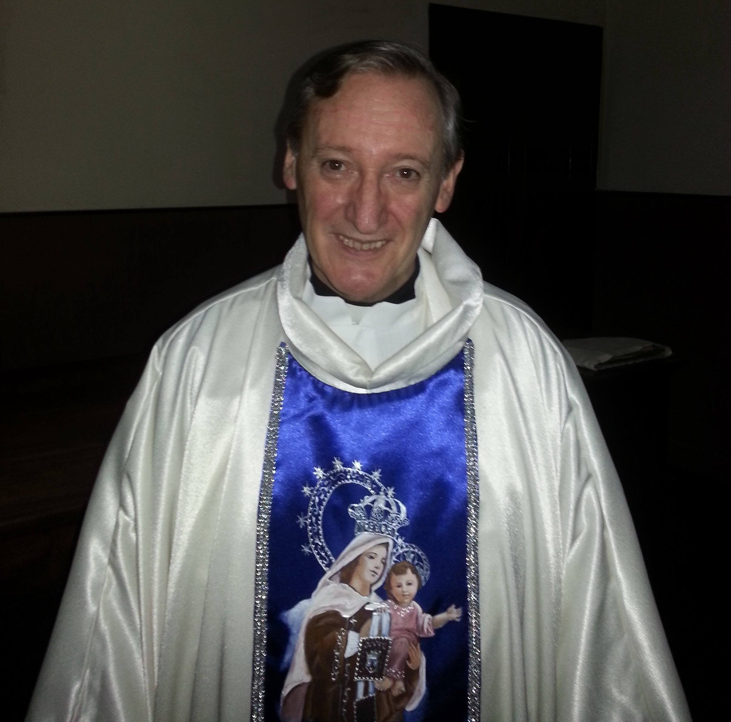 Joaquín Mariano Sucunza. Auxiliary Bishop, Vicar general of the Roman Catholic Archdiocese of Buenos Aires. Titular Bishop of Saetabis.